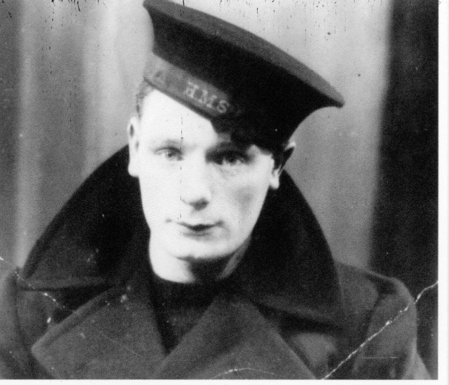 Gunner/ Petty Officer Thomas Hagon 1919-1989 After the war Thomas left the Navy and married the love of his life, Margaret Robinson in March 1945. He had a few jobs, eventually settling into a role as security officer at Fords of Dagenham, Essex where he worked for 32yrs until his retirement. Thomas & Margaret (AKA. Swanny) had three boy's. Thomas never spoke of the war.